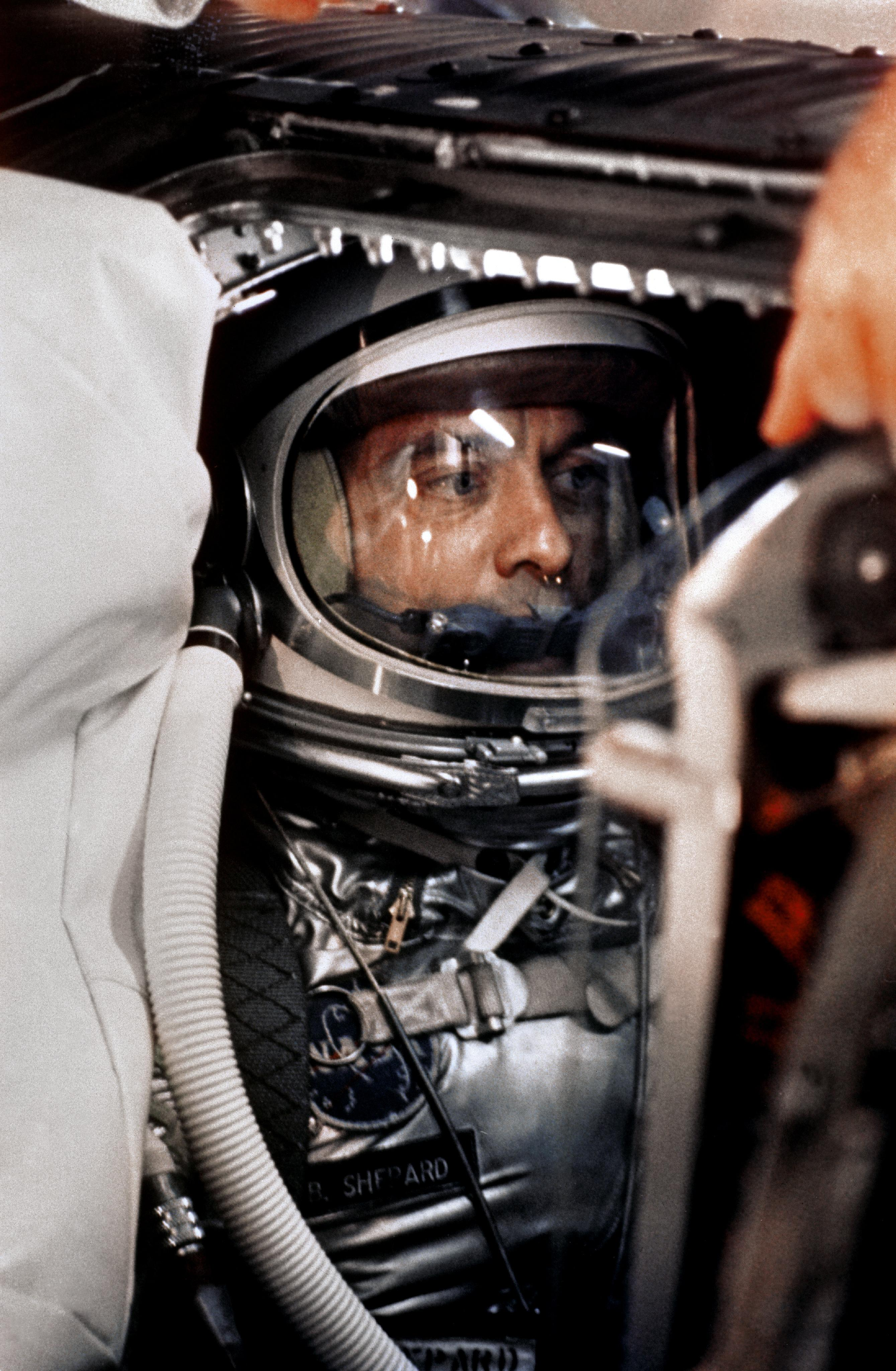 Alan Shepard in capsule aboard Freedom 7 before launch—1961 Alan Shepard became the first American in space on May 5, 1961. He launched aboard his Mercury-Redstone 3 rocket named Freedom 7--the suborbital flight lasted 15 minutes.